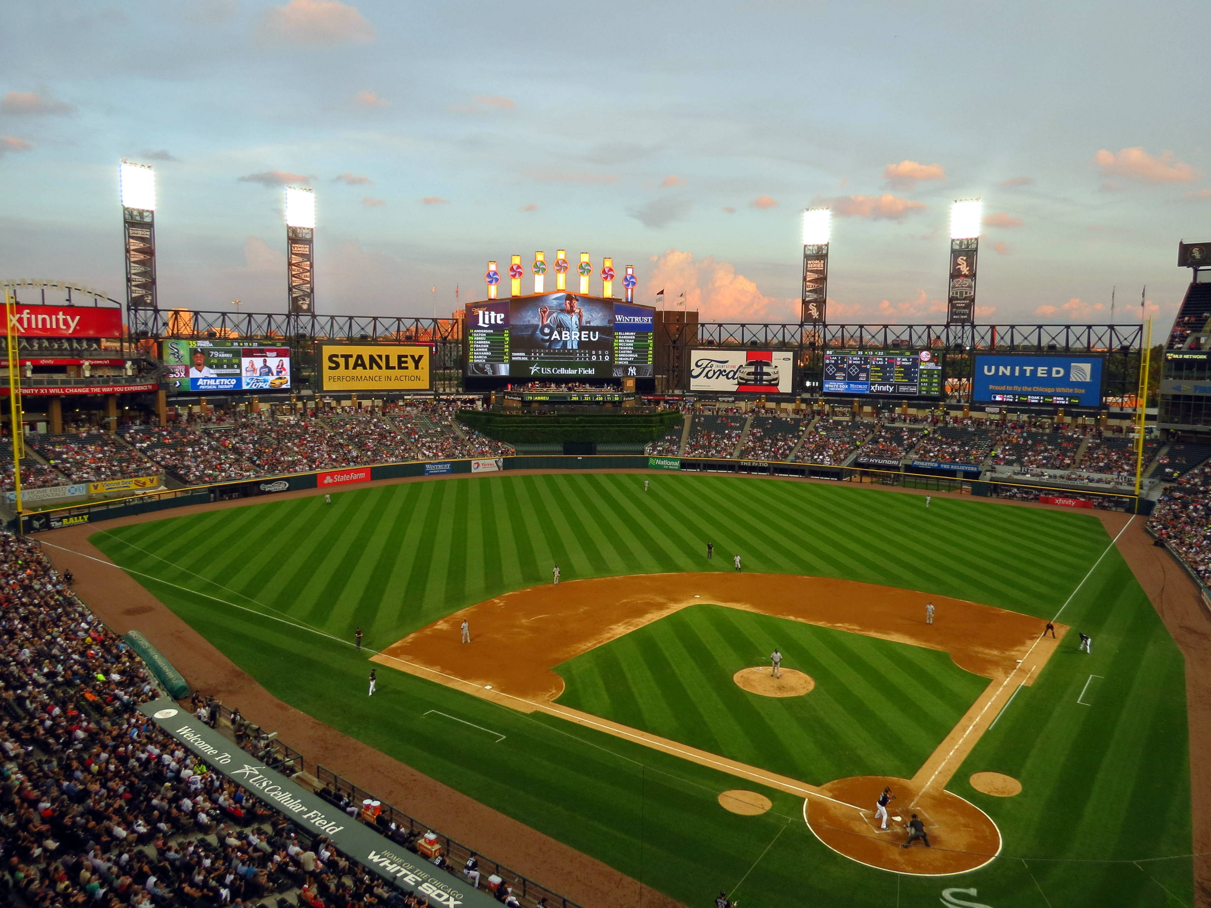 New York Yankees at Chicago White Sox